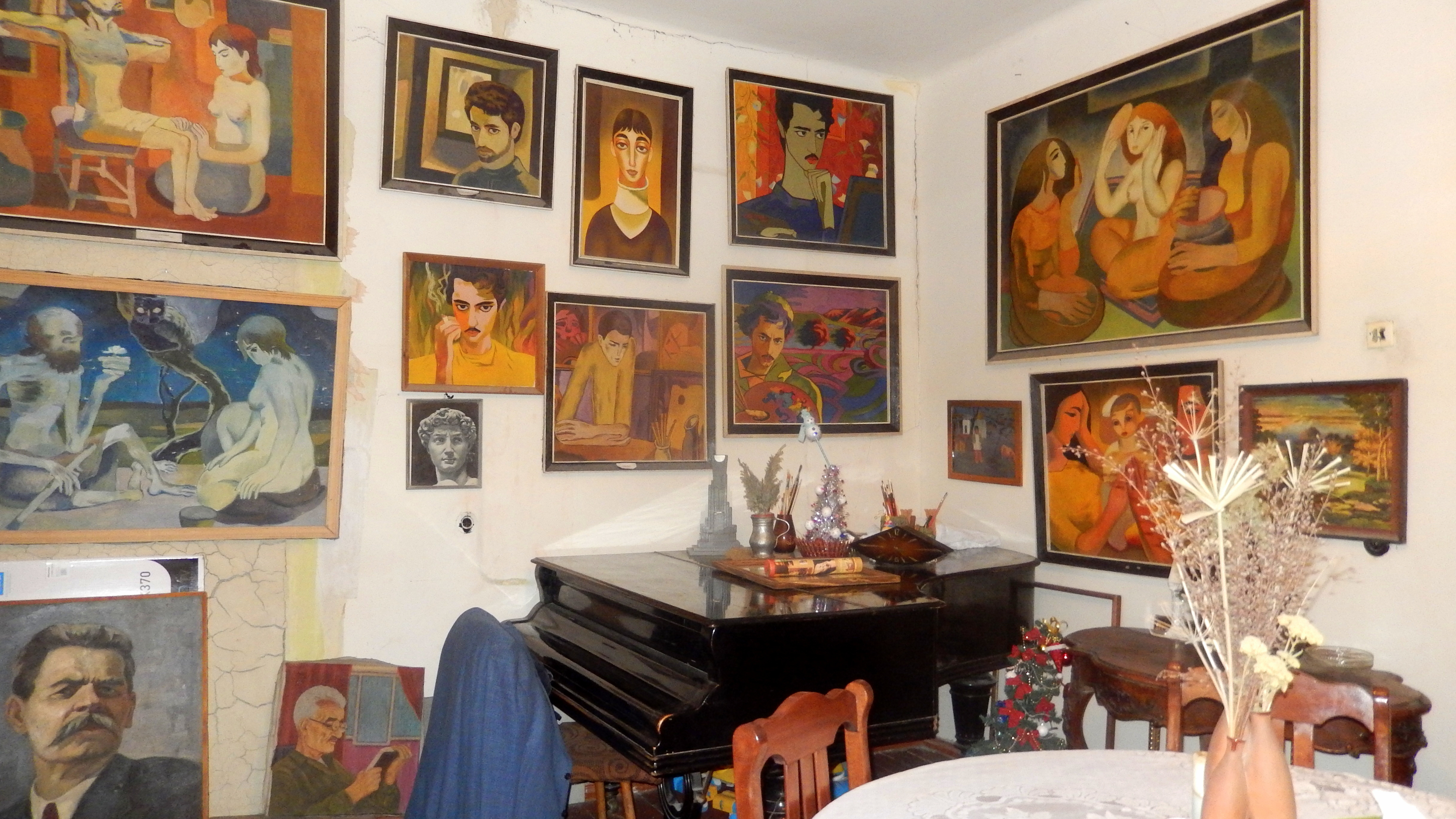 Koryun Nikoghosyan's house-museum